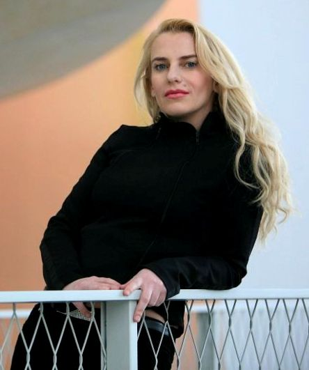 Pianist Beata Szalwinska, original file at File:Beata Szalwinska.jpg